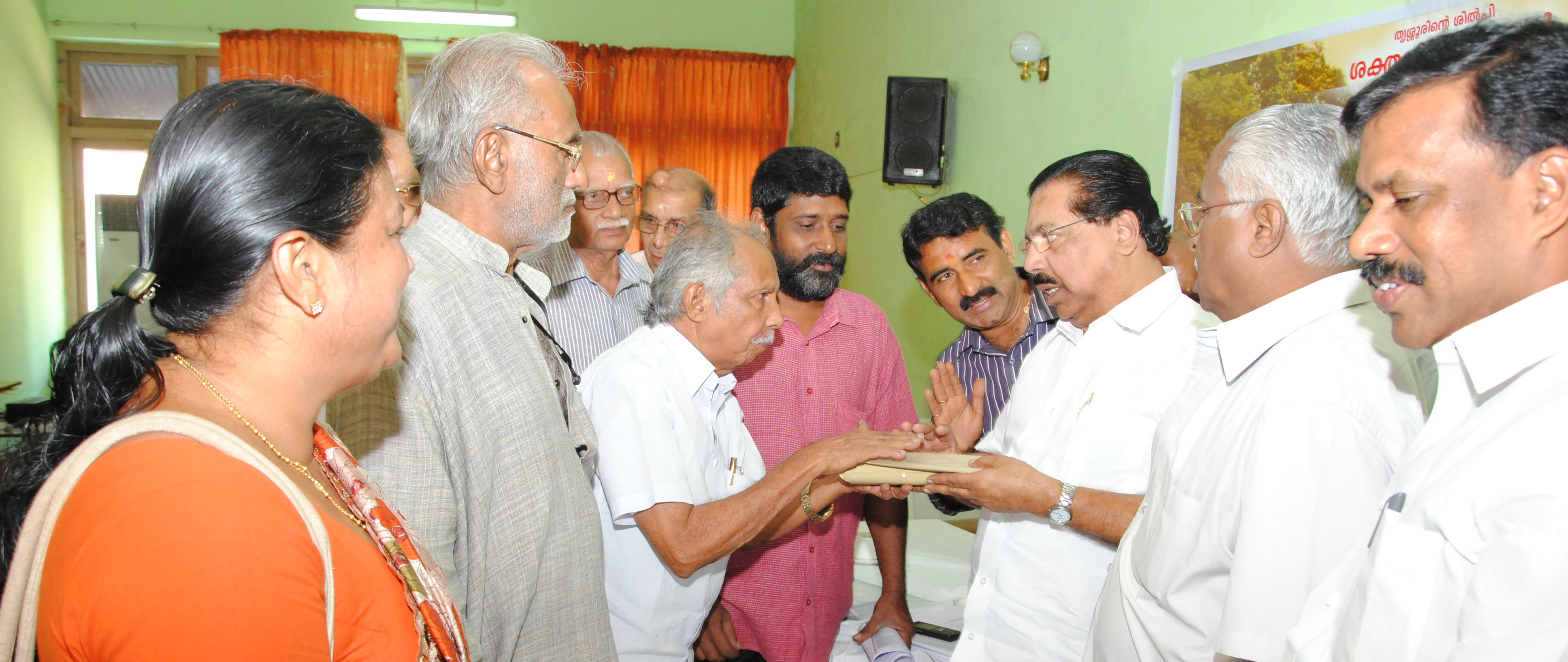 P. C. Chacko receives memorandum about S.R.V school termination from Prof.K.B Unnithan